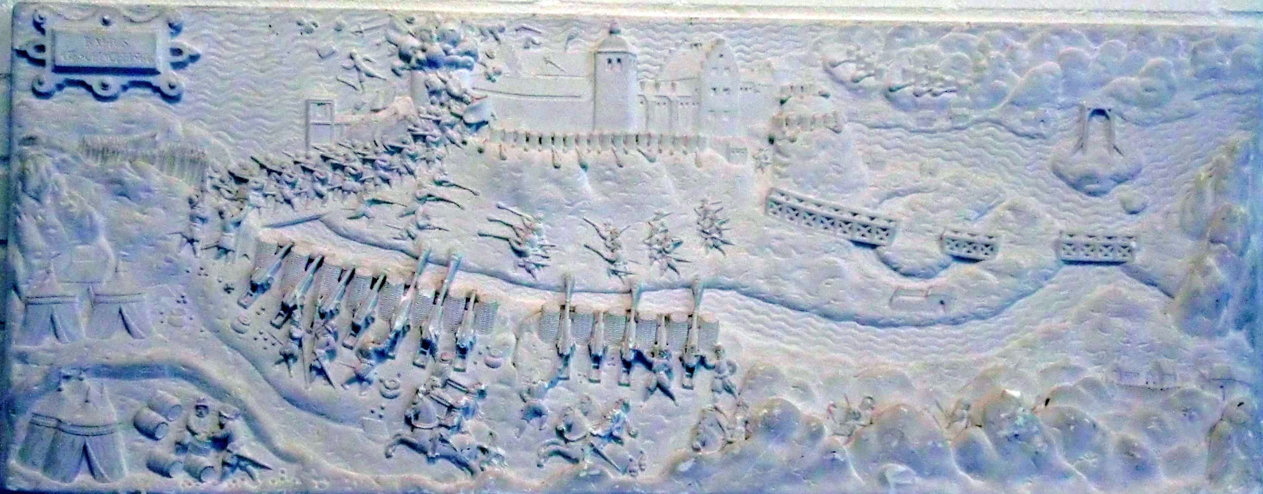 Relief of the 1566 Swedish siege of the Nowegian castle Bohus, at the event of a tower explosion. The pictured relief is a copy made of plaster in the Nordic Folk High School in Kungälv, Sweden. The original marble relief is located on the tomb of Frederick II in Roskilde Cathedral, Denmark.